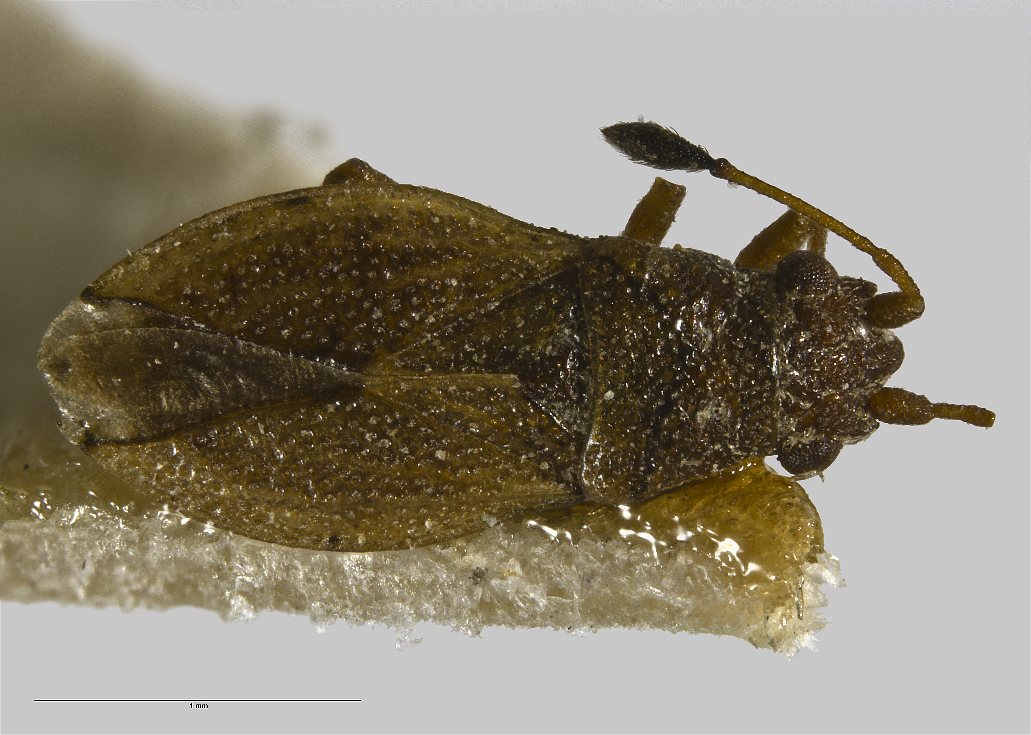 Dorsal view of male holotype specimen of Cymus novaezelandiae AMNZ21726 held at the Auckland War Memorial Museum.